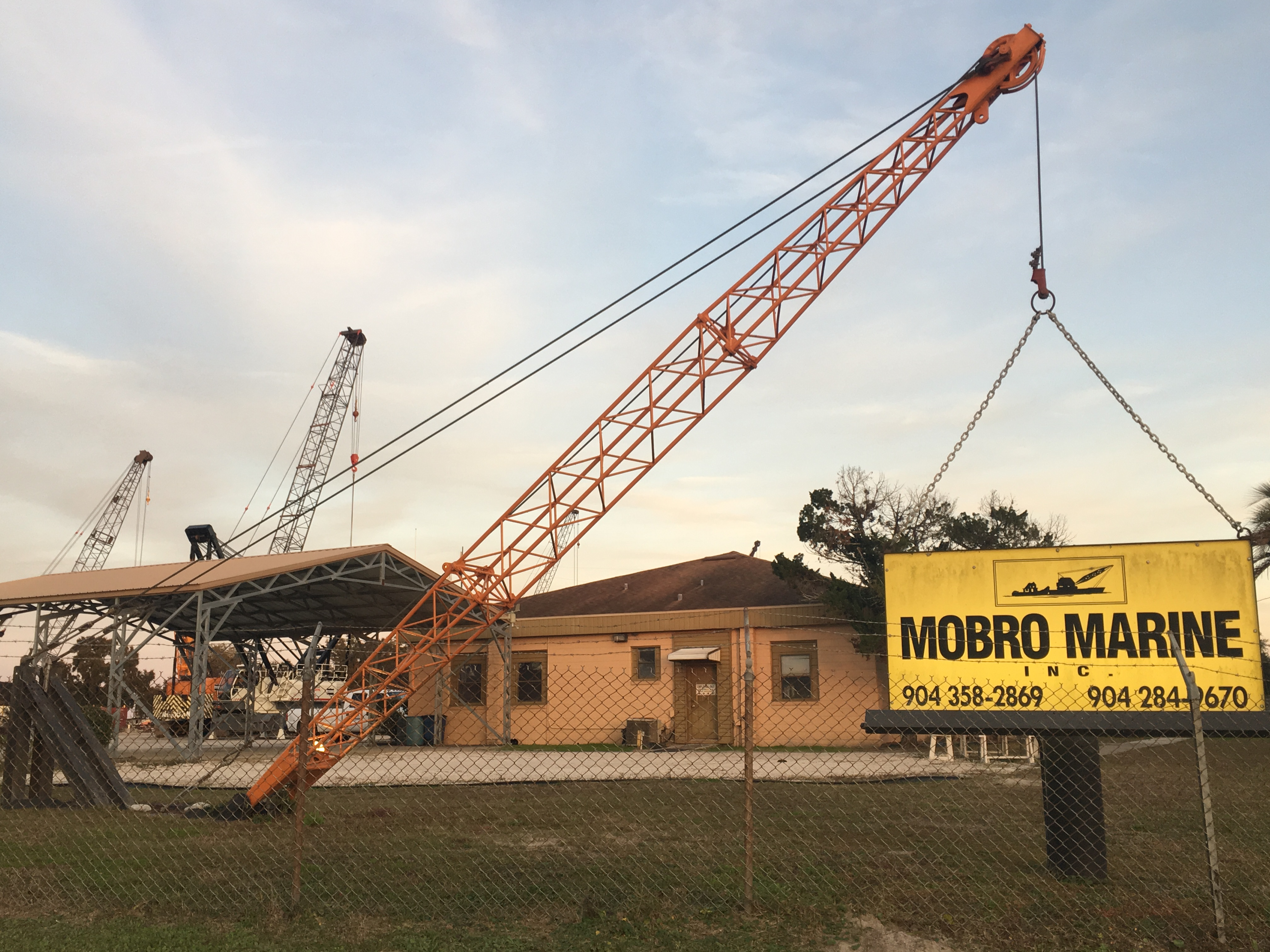 Mobro Marine in Green Cove Springs, Florida.